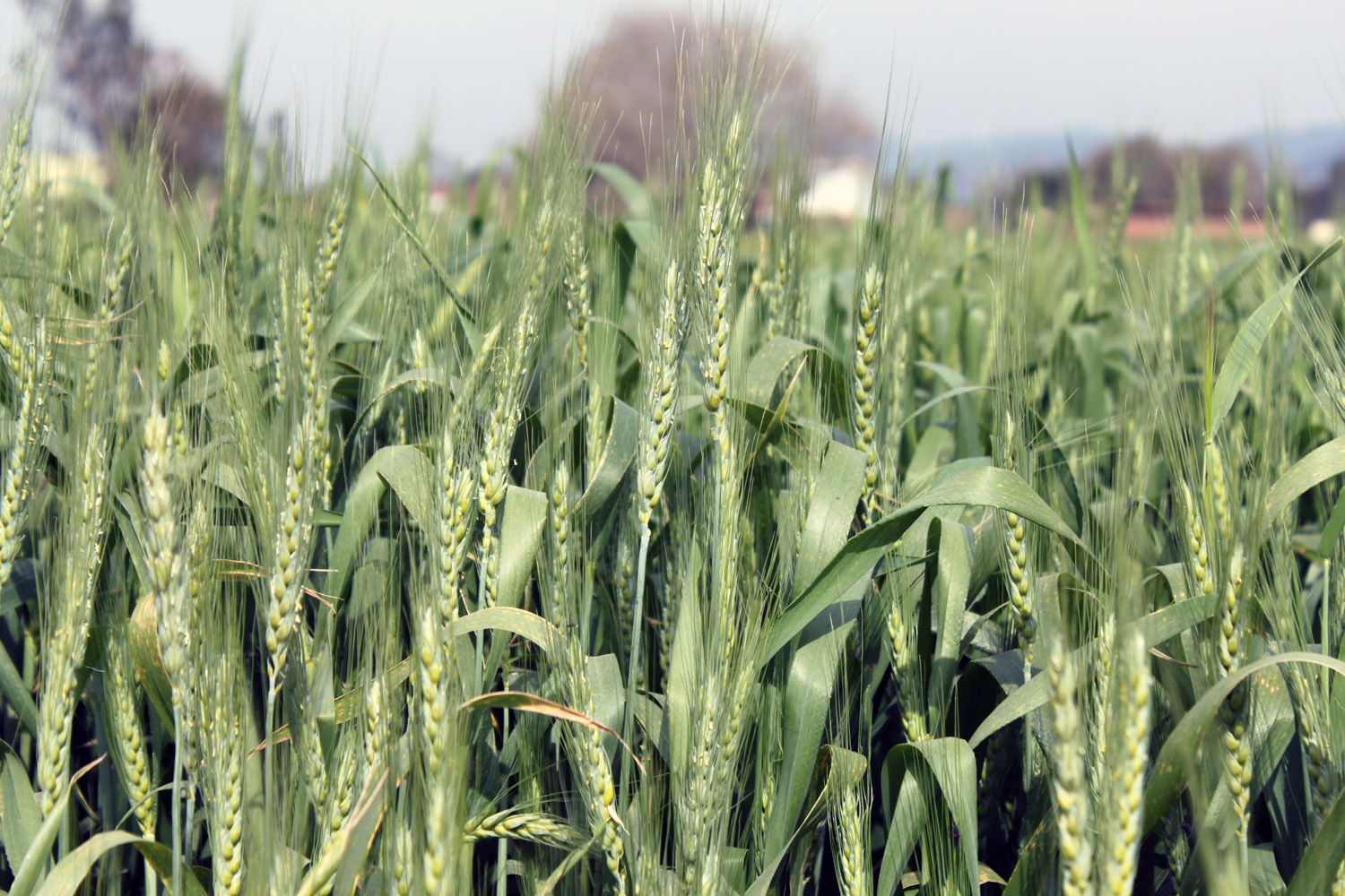 Rabi wheat crop in India